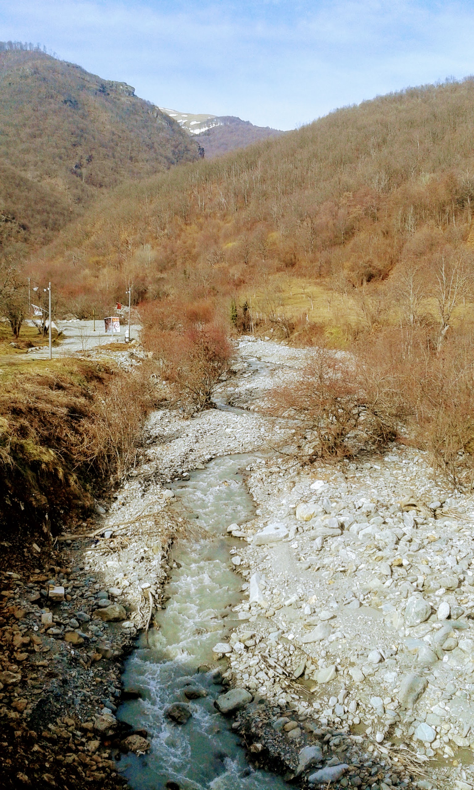 View of the Rakita River near the village Vratnica, Macedonia